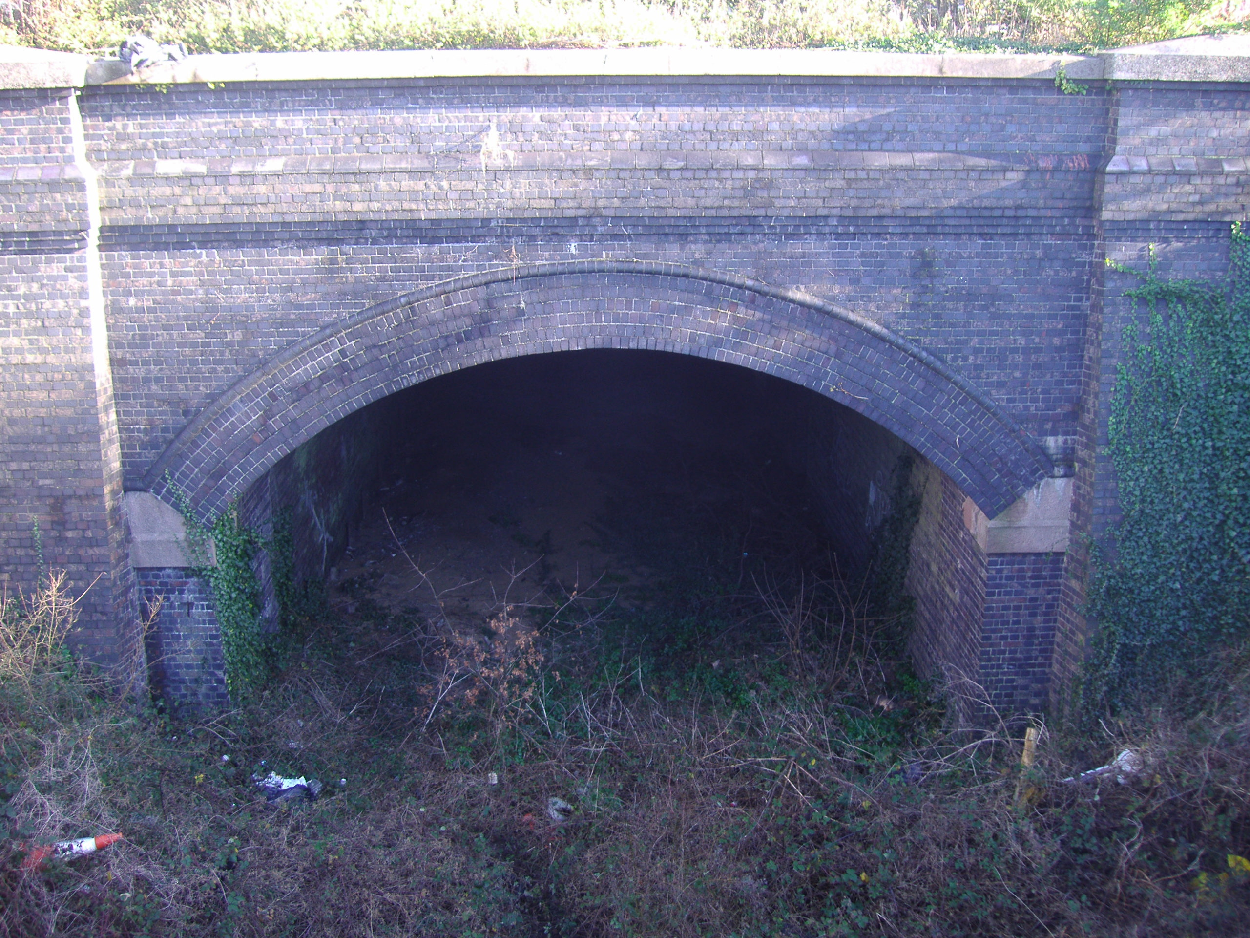 A Digital Photograph of Cromer Tunnel taken on the 12 January 2008 by Haydnaston (talk) 15:49, 12 January 2008 (UTC)